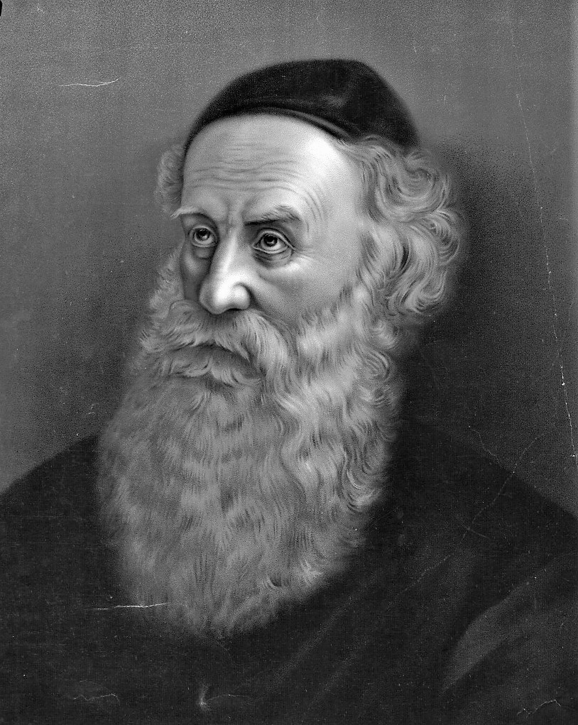 A portrait purportedly displaying Rabbi Schneur Zalman of Liadi, in fact painted by Boris Schatz 66 years after he died.